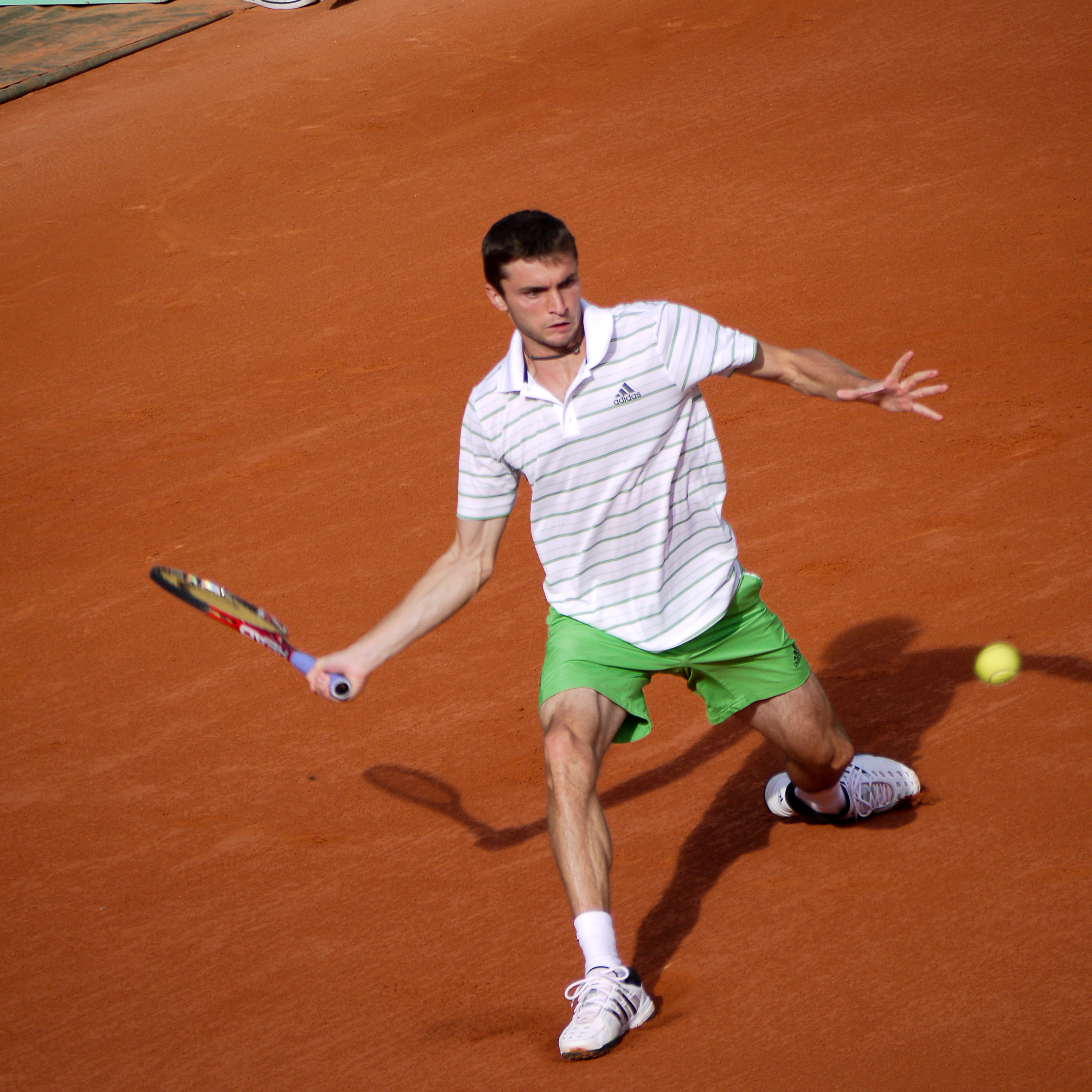 Simon playing a forehand against Russell in the first round of the 2011 French open